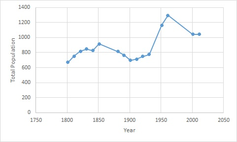 Total population from 1801-2011 from census data